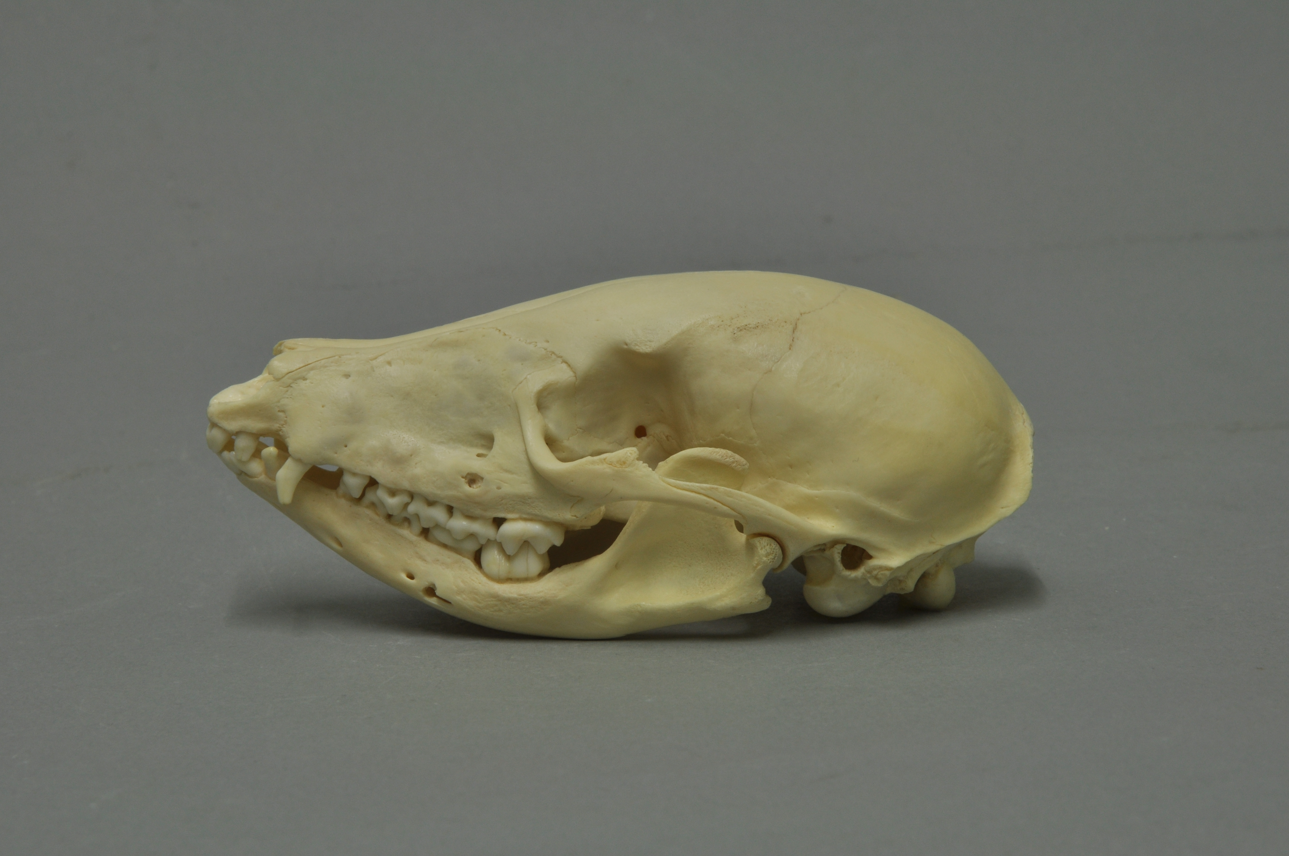 South American coati , skull, Coll. Museum Wiesbaden